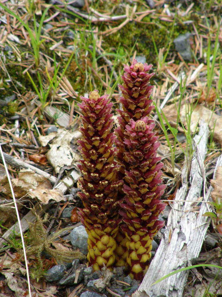 Boschniakia rossica northeast of Cordova, Alaska, USA